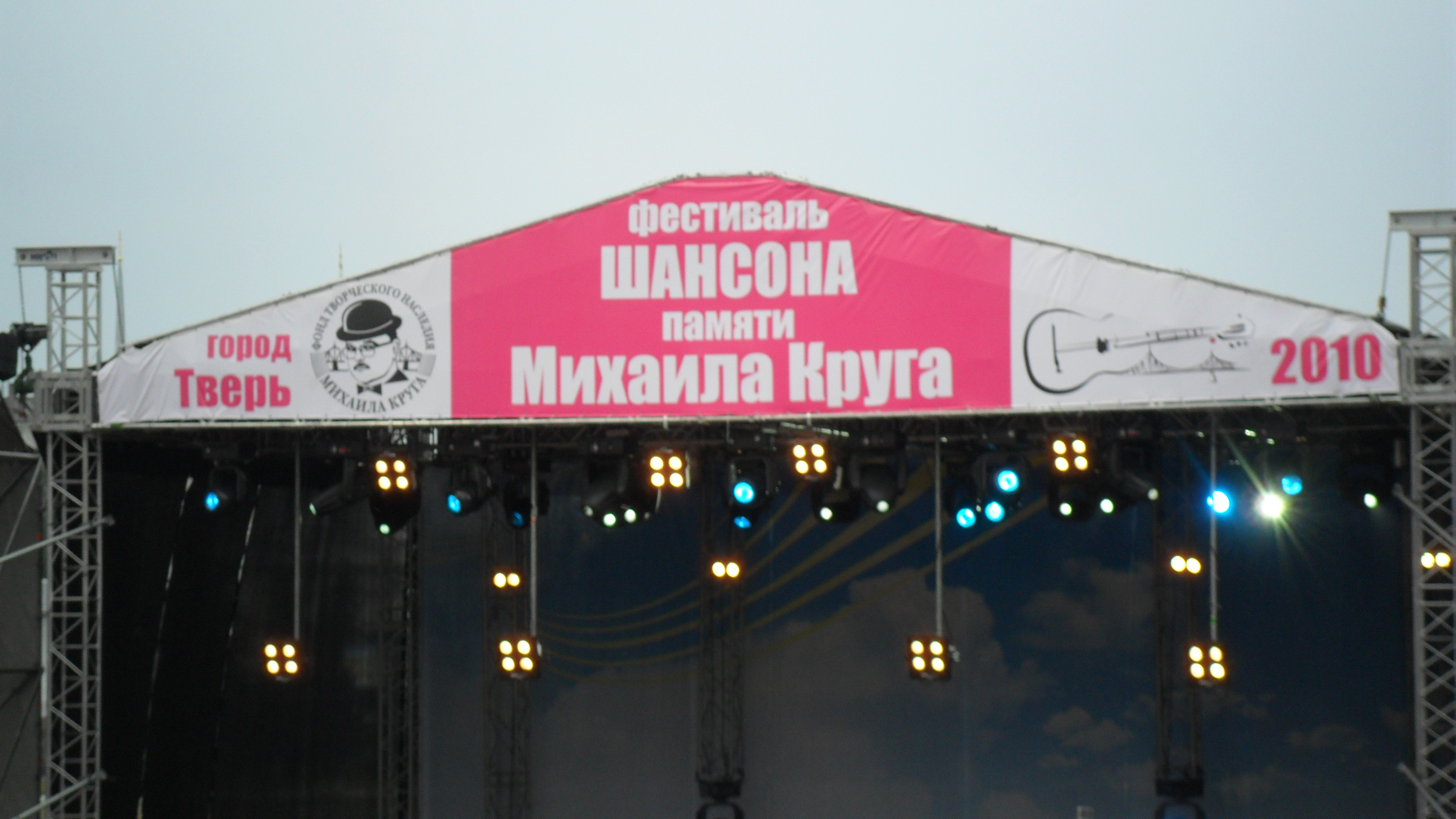 Eighth Festival of memory Mikhail Krug in Tver, the upper part floating pontoon on the Volga, where the concert was held.